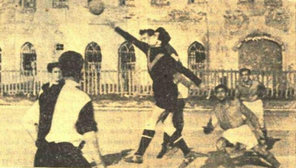 A view from Galatasaray-İstanbulspor match in 13 April 1934.